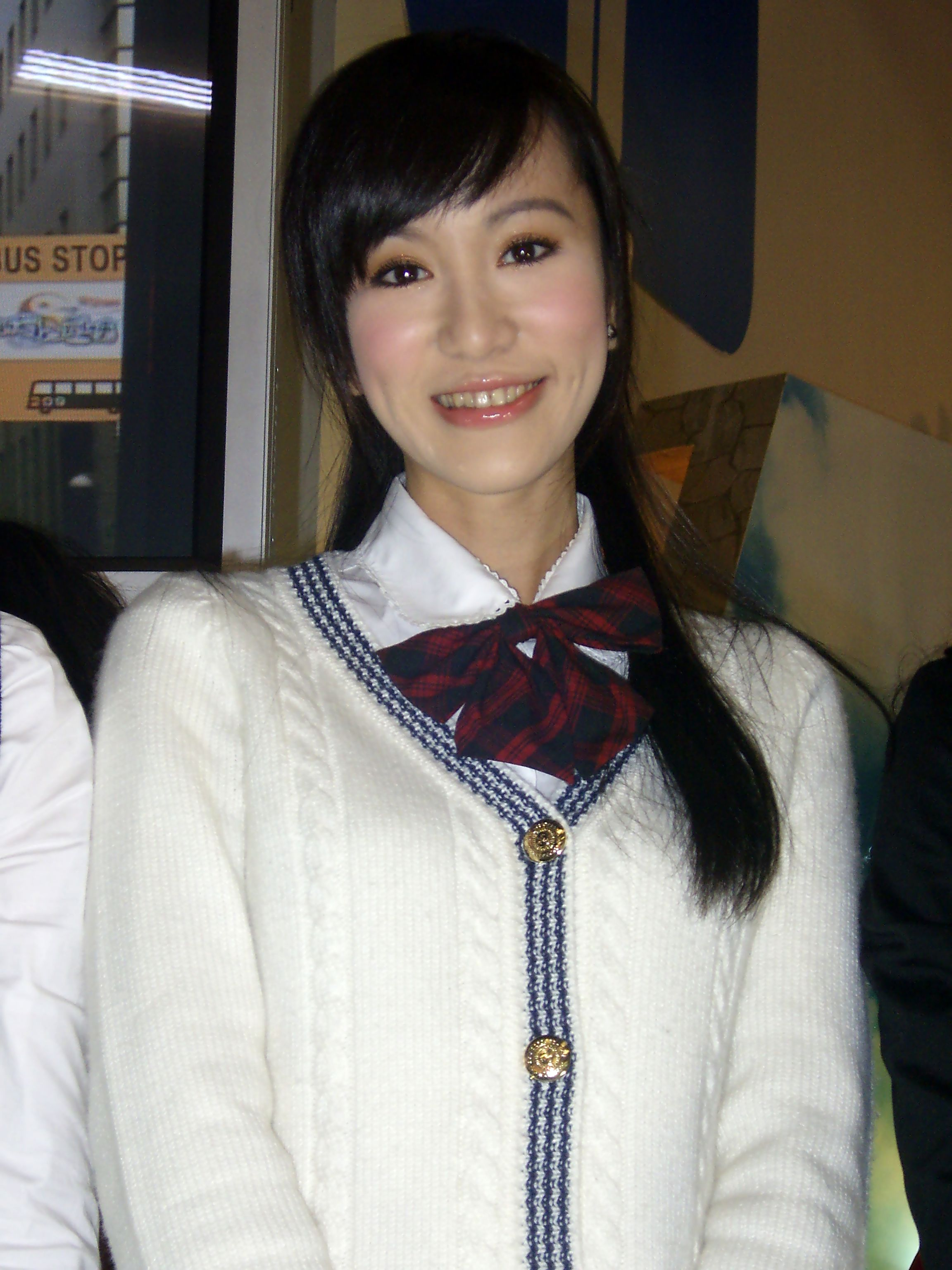 2007 Taipei IT Month: Huang Wei Ting Apple, a member from A legend star.Bân-lâm-gú: 2007-nî Tâi-pak Tsu-sìn-gue̍h: N̂g Uí-tîng (Apple). 2007年臺北資訊月：黃暐婷(Apple)。